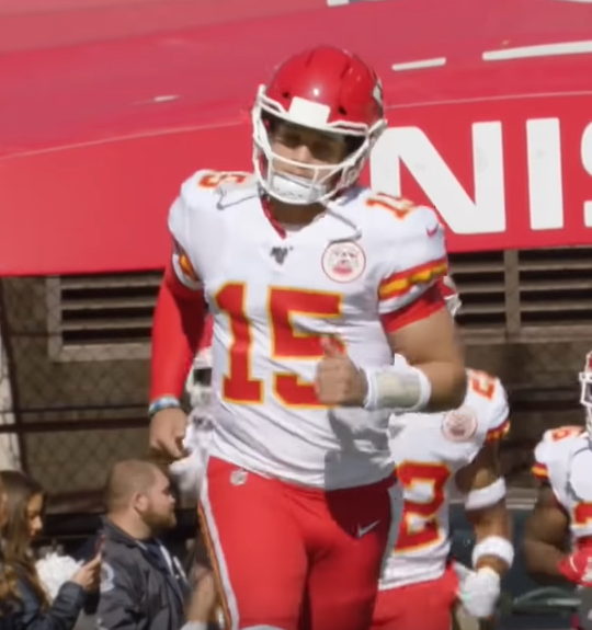 Patrick Mahomes 2019. Image taken from video Titans Mic'd Up vs. Chiefs (Week 10) | Sounds of the Game ~ 00:44